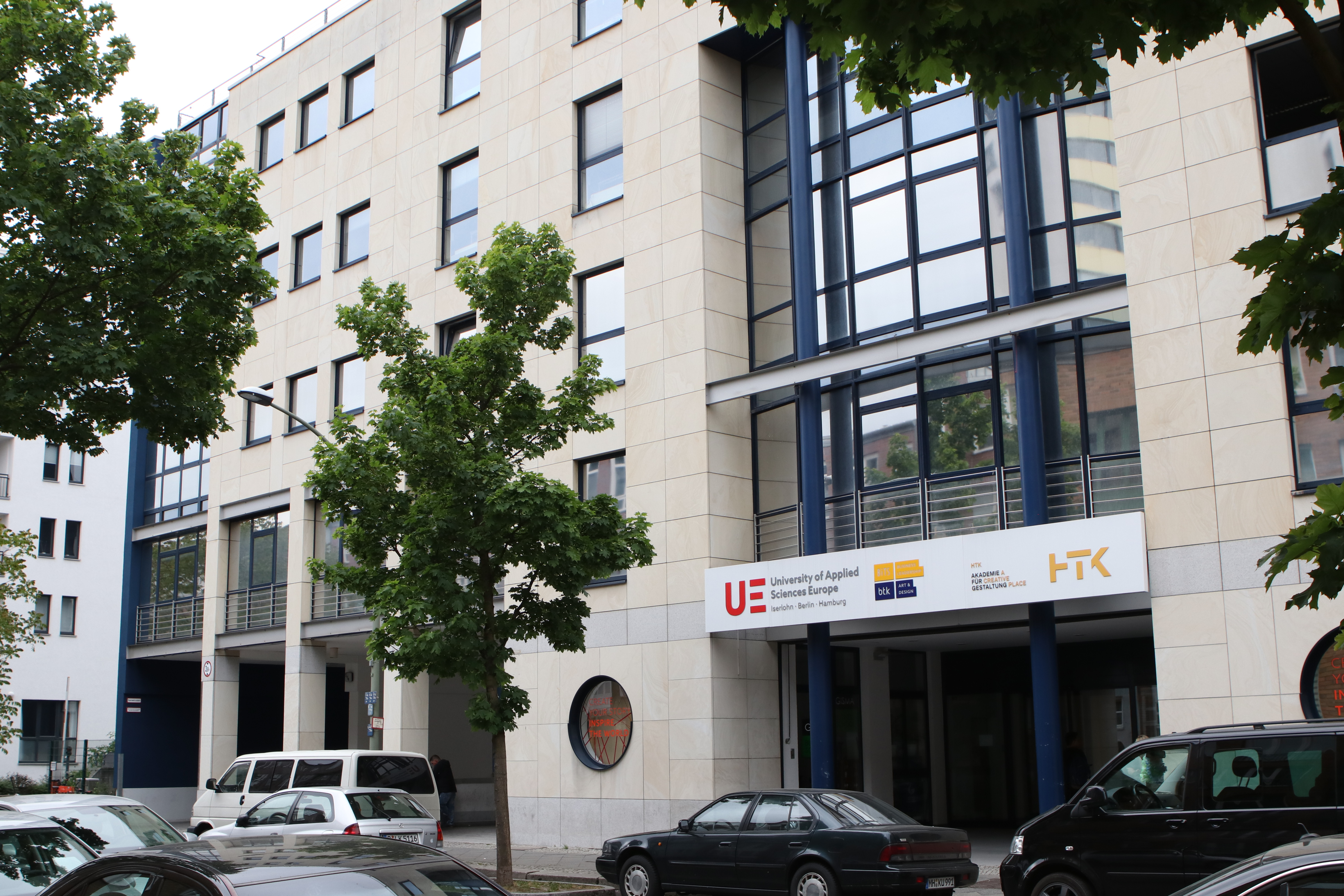 This is the front of campus building of the University of Applied Sciences Europe in Berlin, Germany